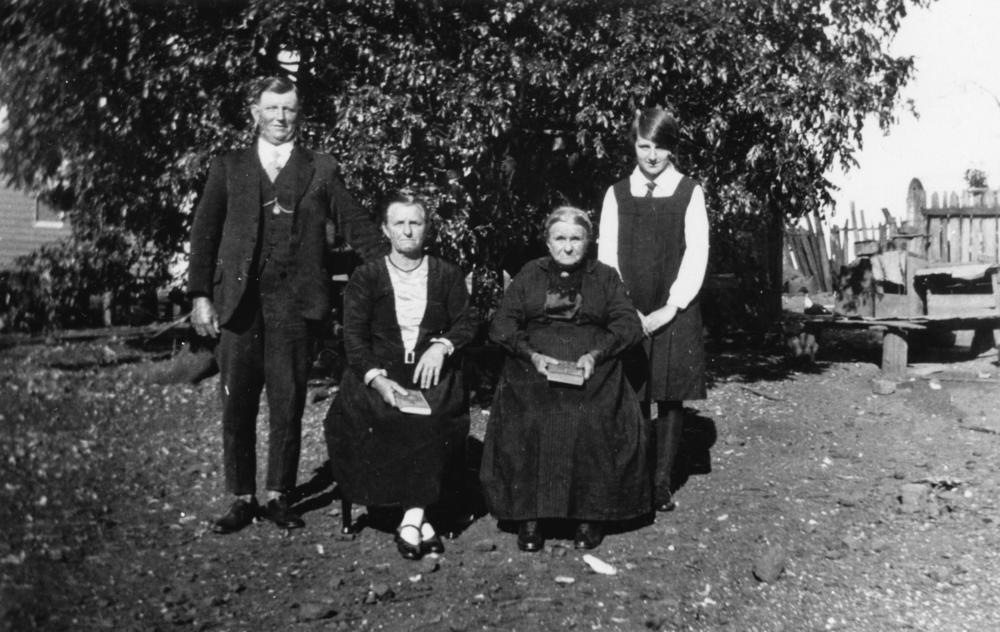 Badke family of Roadvale, 1928 June or July 1928 at Roadvale. L- R: Heinrick Badke (grandson), Mrs Anna Badke (daughter), Gran Henrietta Zillmann and Vera Badke (great grand daughter). (Description supplied with photograph.).